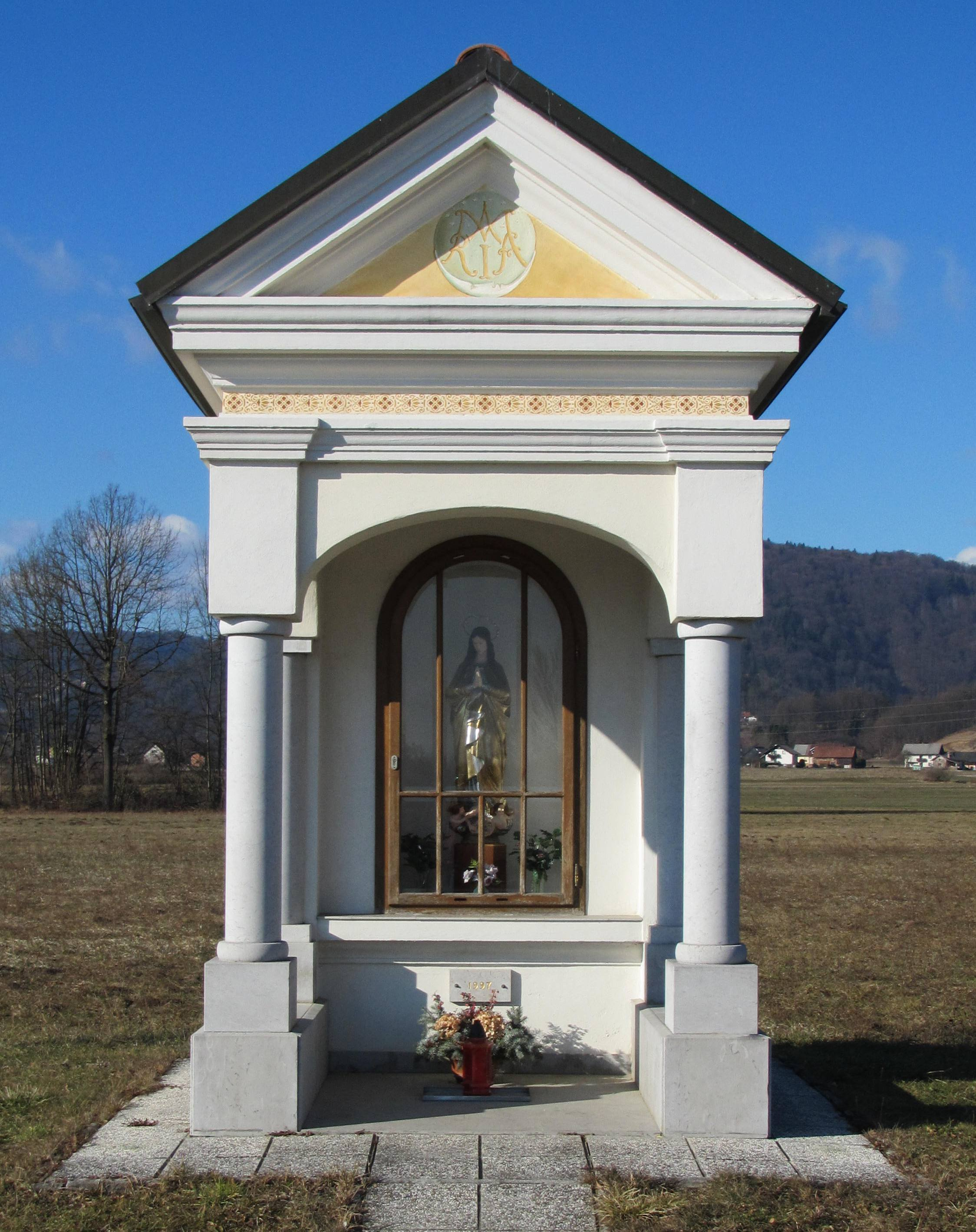 Wayside shrine in Stranska Vas, Municipality of Dobrova–Polhov Gradec, Slovenia